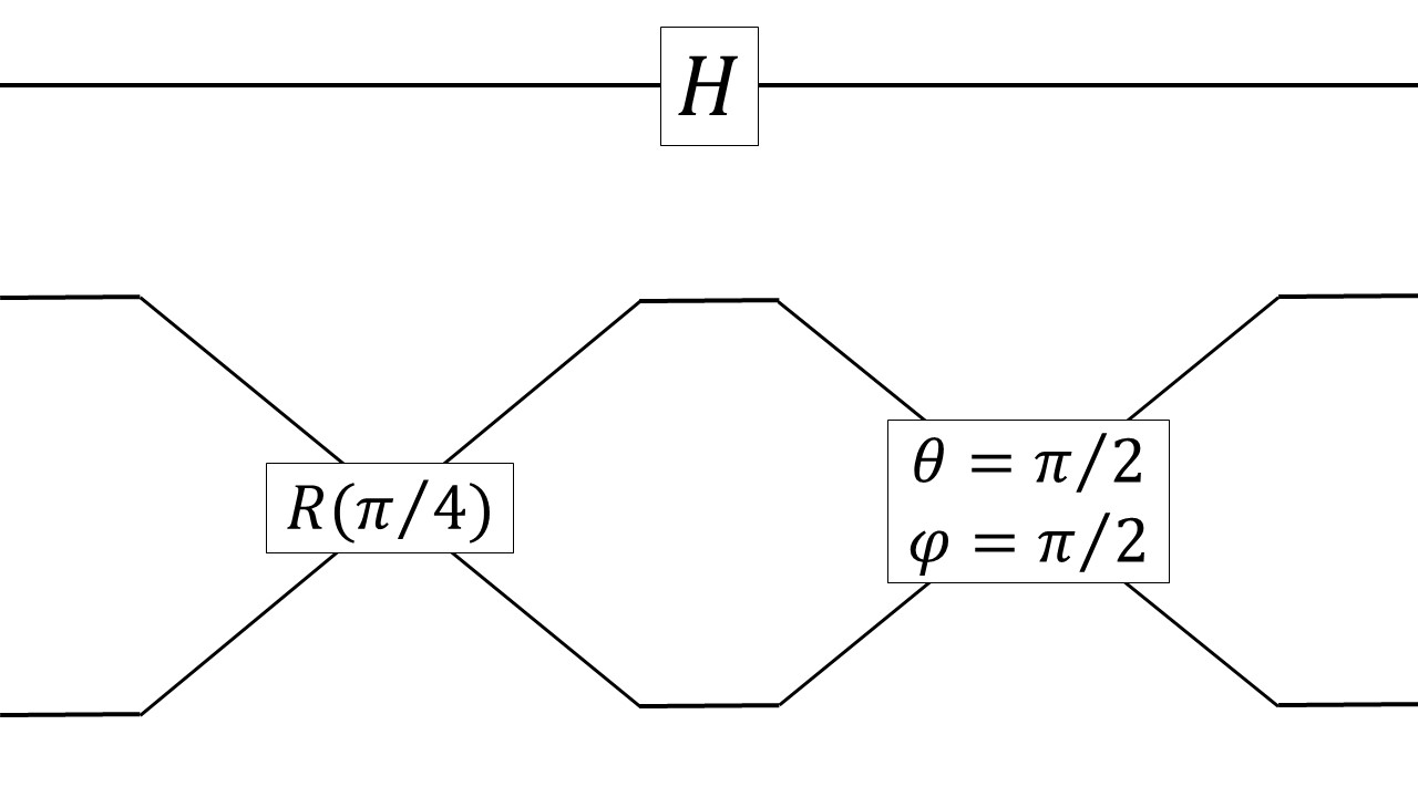 Hadamar Linar optics Circuit